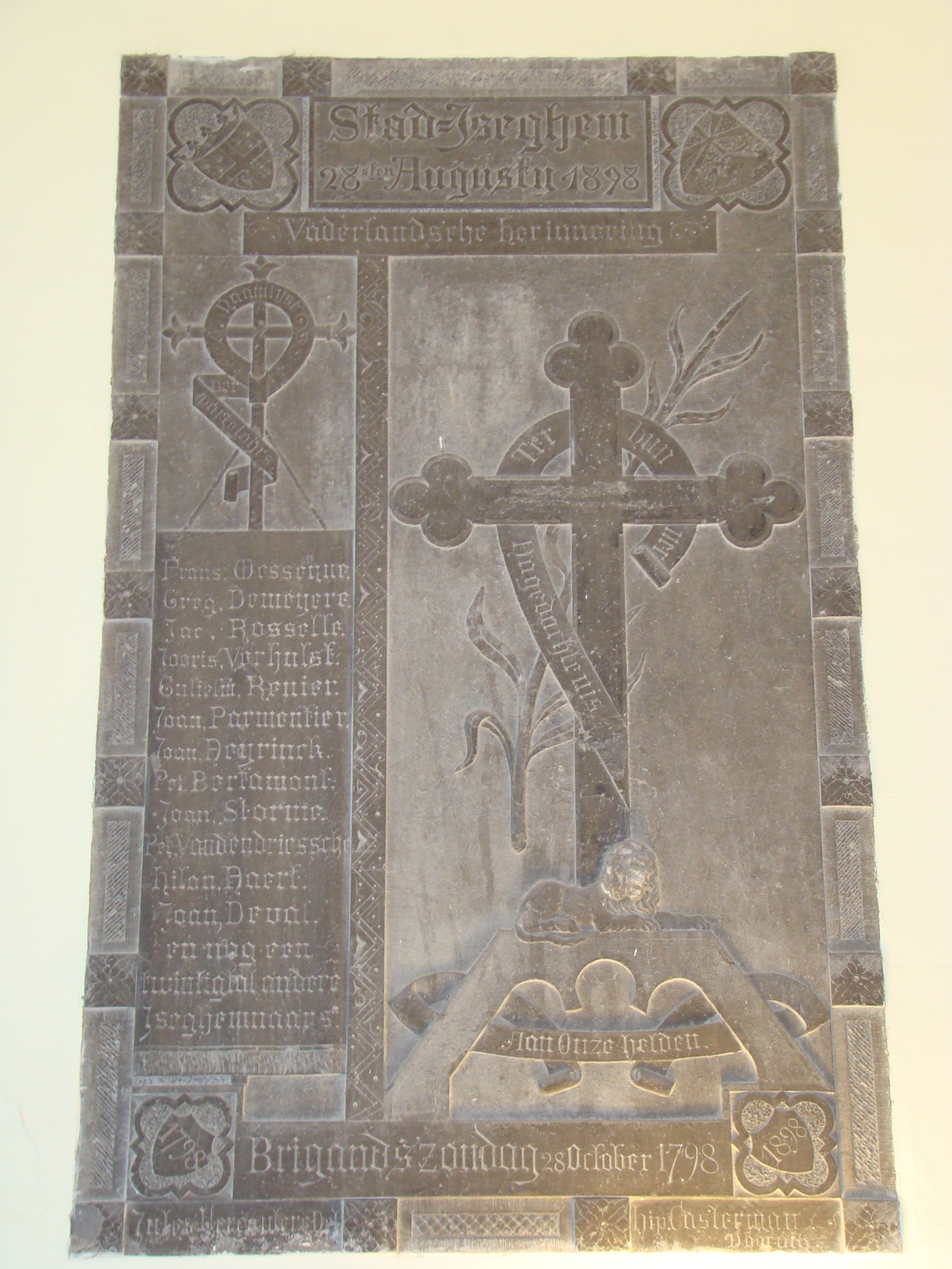 Sint-Tillo church Izegem (West Flanders, Belgium)